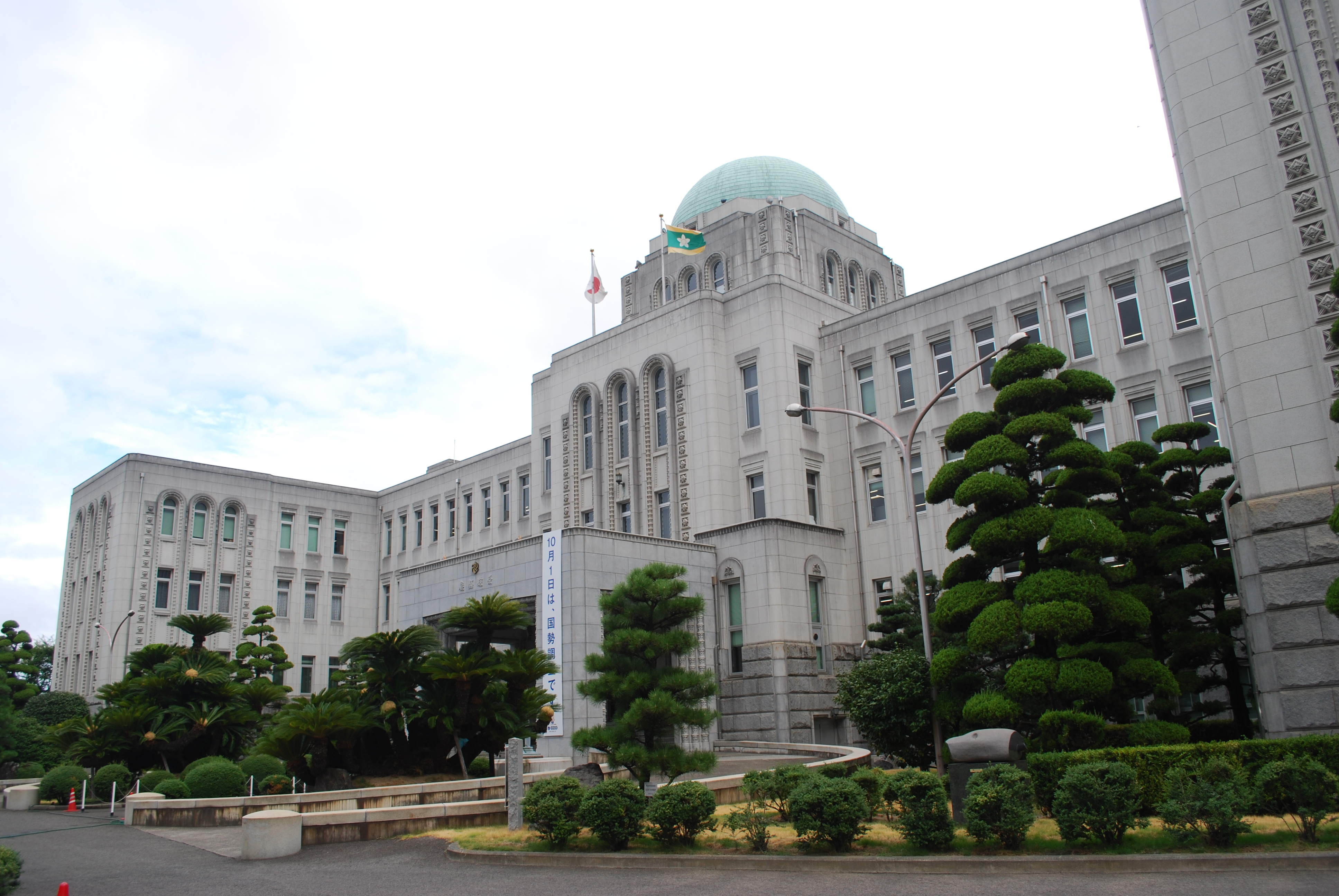 Ehime pref. Main building,Matsuyama-city,Japan